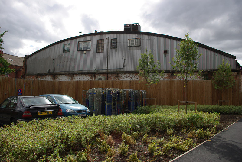 Rear of Rich Bitch Studios, Bournbrook. Many of the older buildings in this area of Bournbrook have been demolished to make way for a new relief road. This one has survived. The new road is to the right of this view.